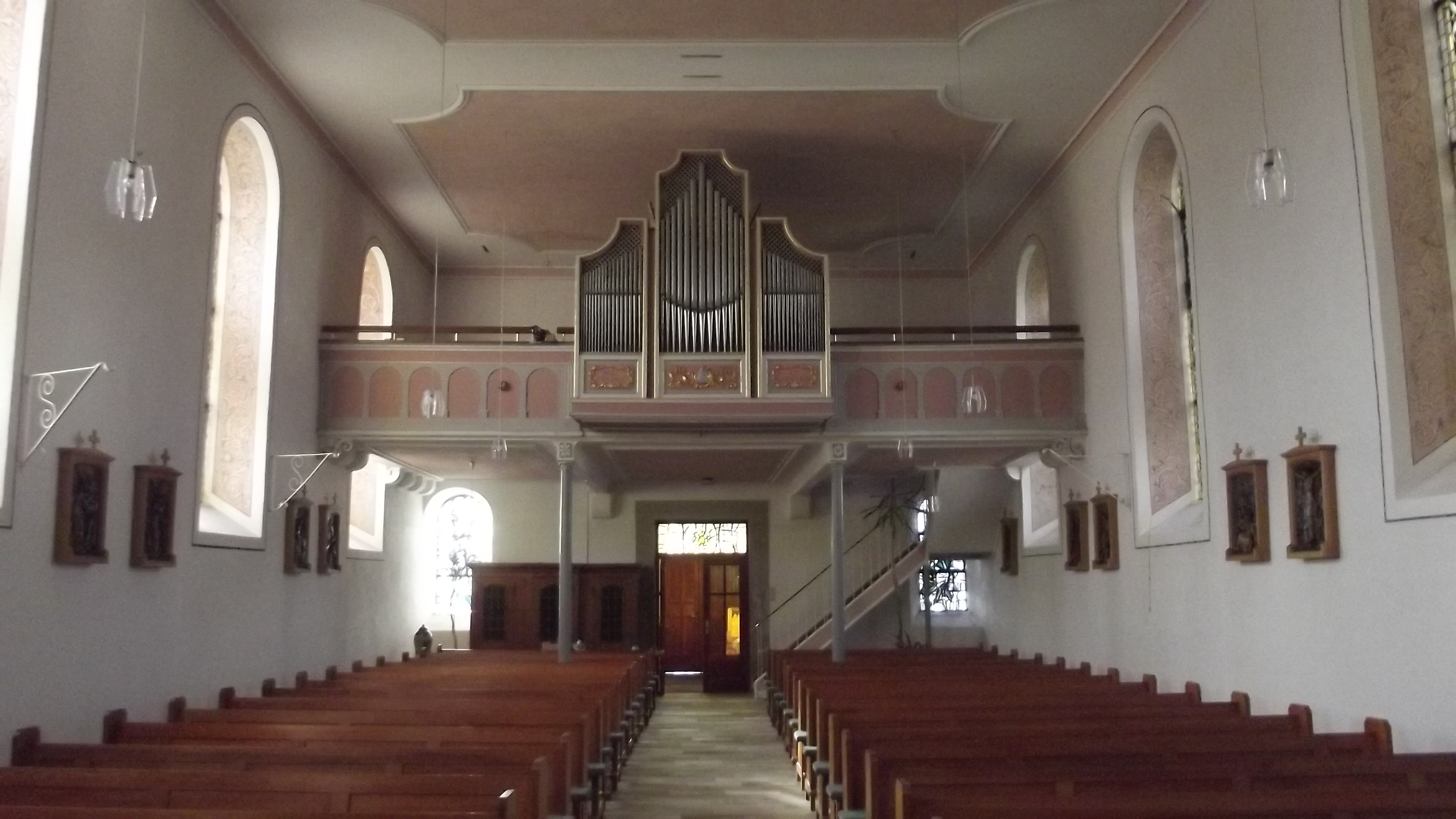 Interior of the roman catholic church in Otzenhausen, Saarland